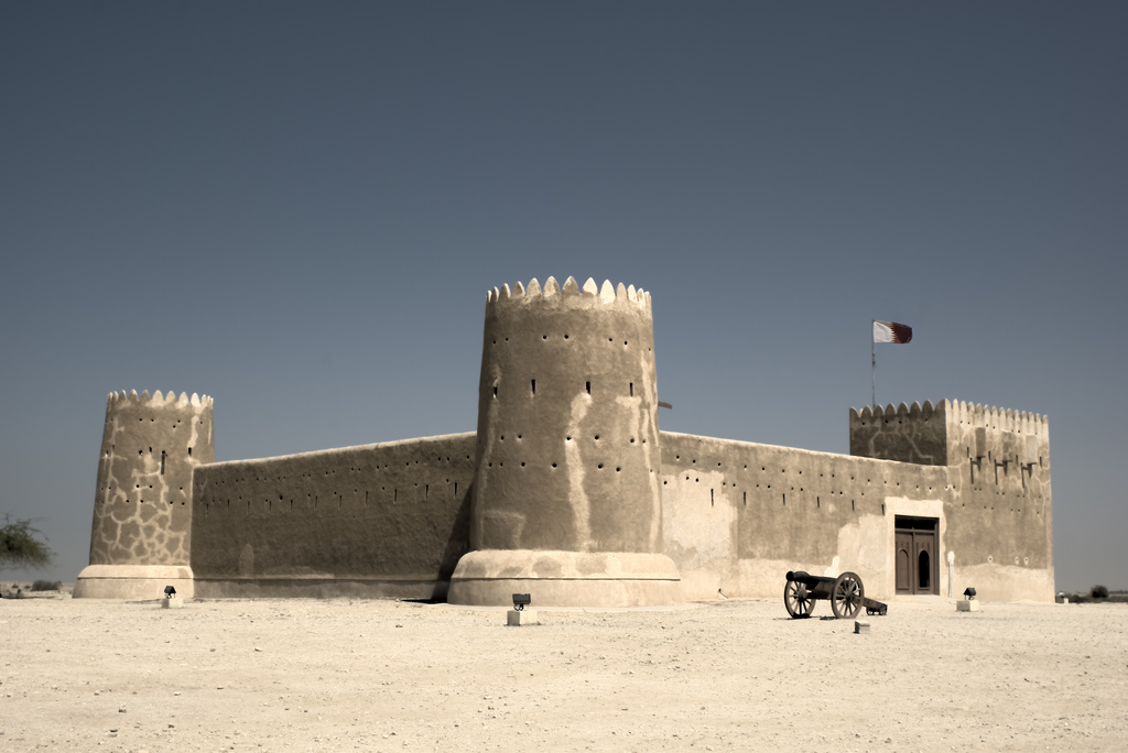 the Fort Zubara is an ancient stronghold of Qatar. this is an HDR impression.